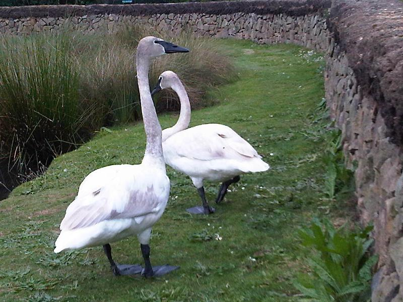 Trumpeter Swans (Cygnus buccinator) in WWT London Wetland Centre, England.